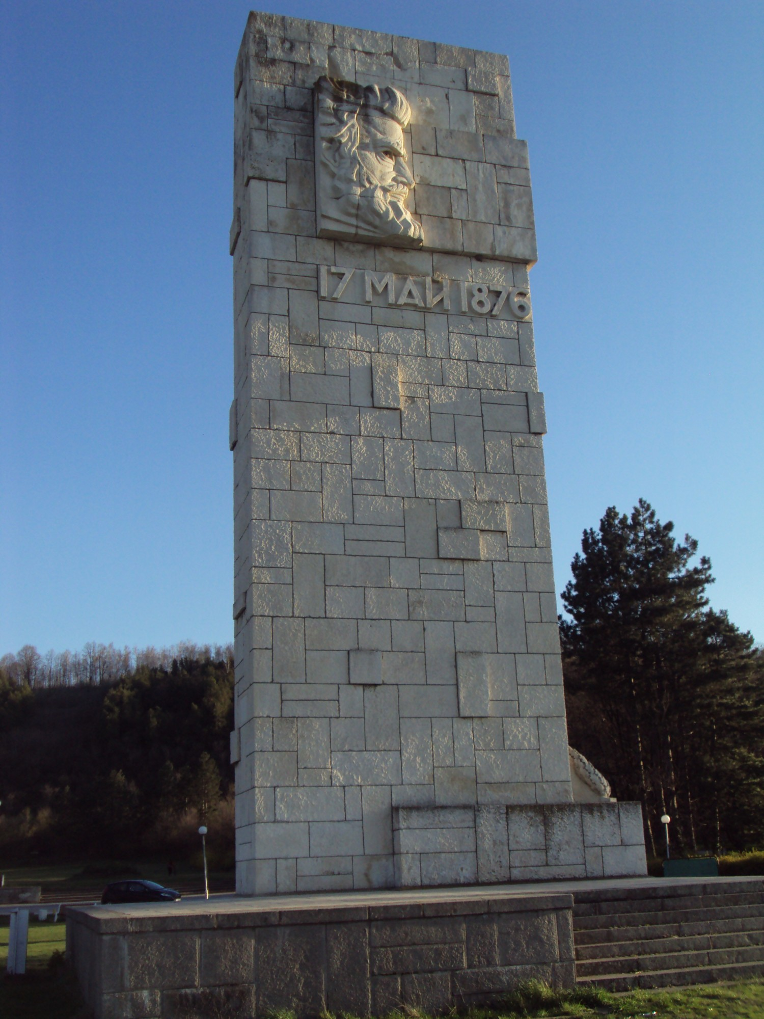 National Museum Steamship "RADETZKY", Town of Kozloduy, Bulgaria